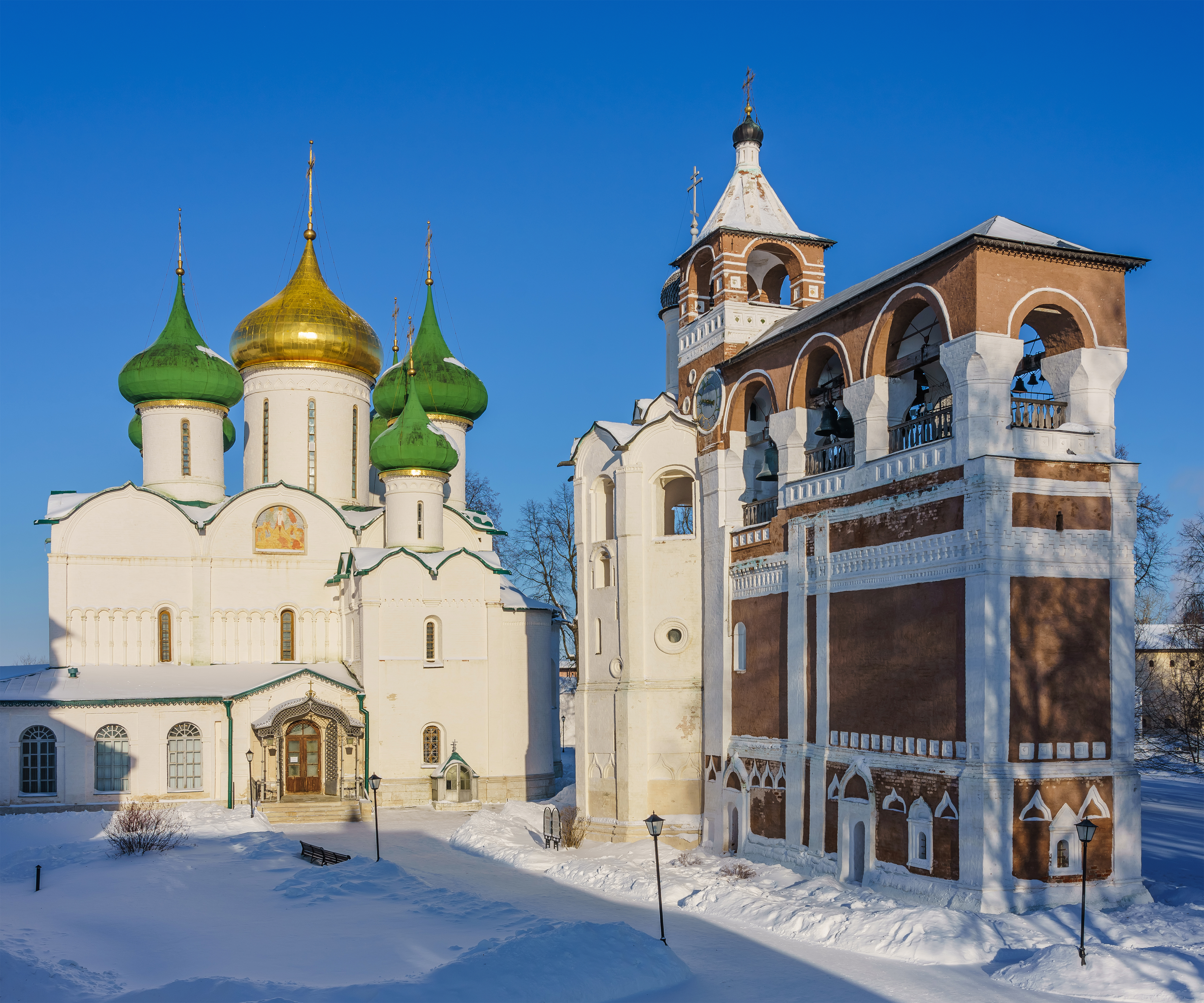 Transfiguration Cathedral and the Belfry in Spaso-Evfimiev Monastery in Suzdal, Russia